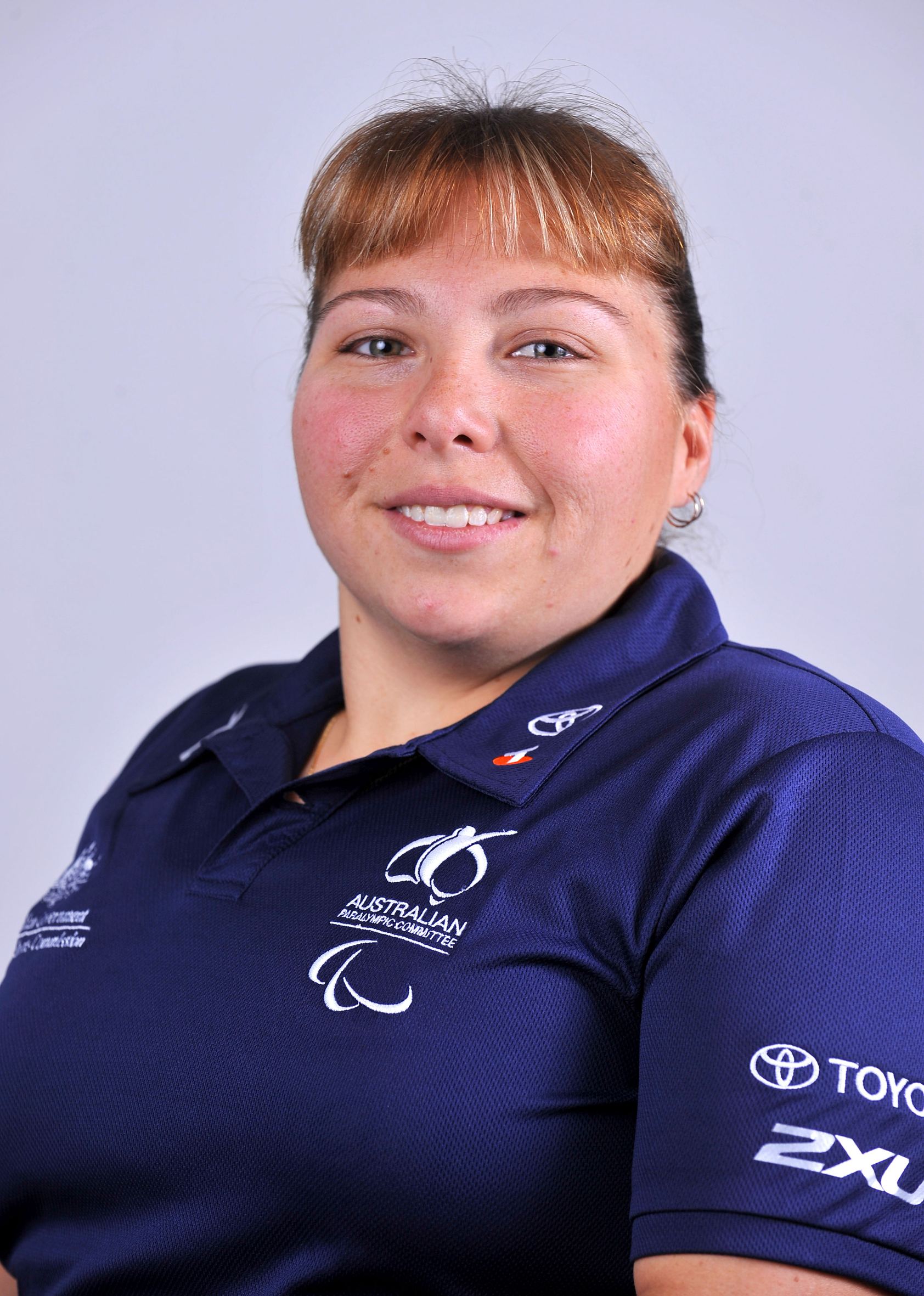 Portrait of Australian wheelchair basketballer Kylie Gauci, 2012 Australian Paralympic (shadow) Team athlete